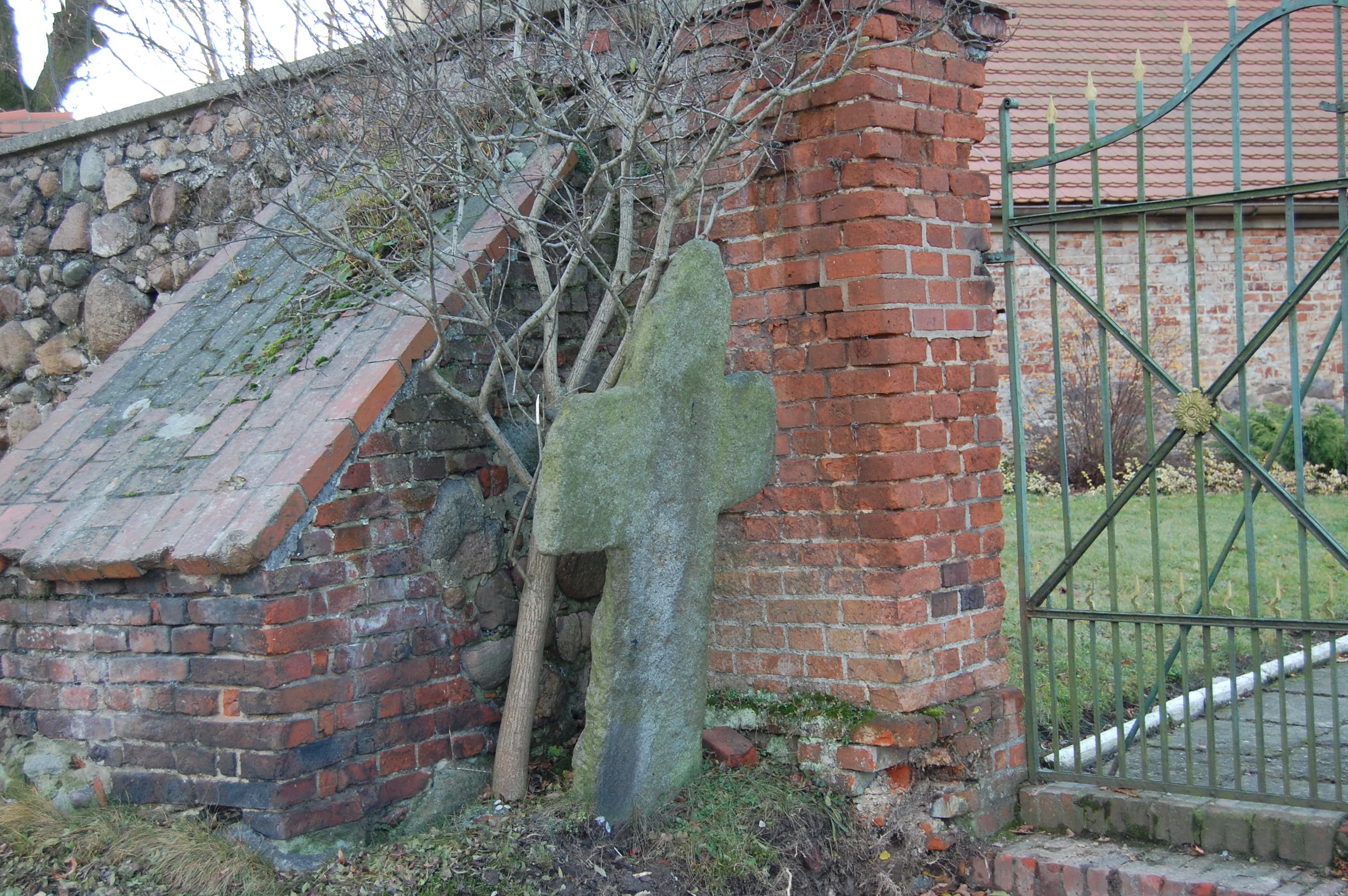 Wierzbnik, stone cross the parish church.